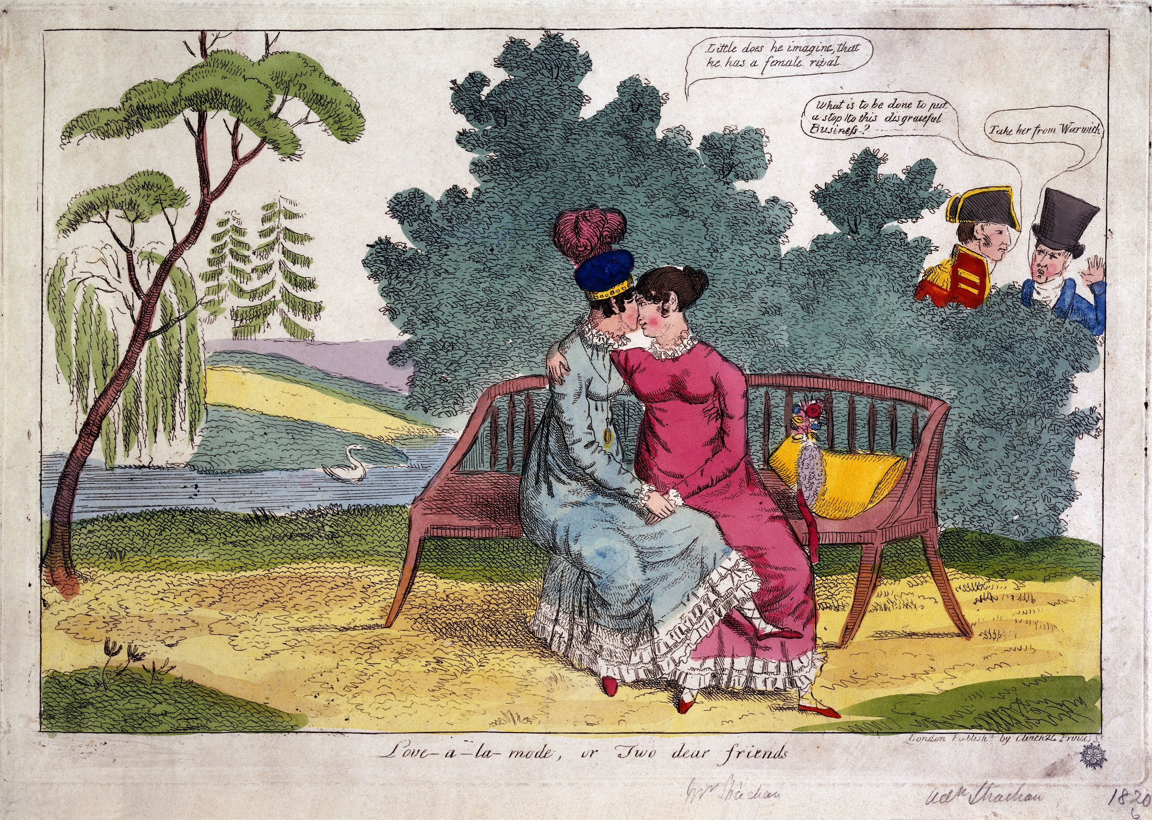 Lady Strachan and Lady Warwick making love in a park, while their husbands look on with disapproval. Coloured etching, ca. 1820. Notes from previously-uploaded monochrome image File:Love-a-la-Mode-Lady-HamiltonQ.jpg "Love-à-la-mode, or Two dear friends", an early 19th-century caricature by James Gillray, reportedly depicting a scandalous rumour told about Emma, Lady Hamilton (Nelson's mistress), and Queen Maria Carolina of Naples (presumably the woman on the left, who seems to be wearing some kind of coronet or crown beneath the feathers in her headdress). Emma has taken off her bonnet and put it on the bench. Two men spy out the situation in some distaste, from behind the bushes. Text in image: One lady to the other "Little does he imagine that he has a female rival" Gentleman in nautical uniform (Nelson?) "What is to be done to put a stop to this disgraceful Business?" Other gentleman "Take her from Warwick"(?) Note: Nelson and Emma Hamilton briefly visited Warwick in early September 1802, but Maria Carolina wasn't with them.